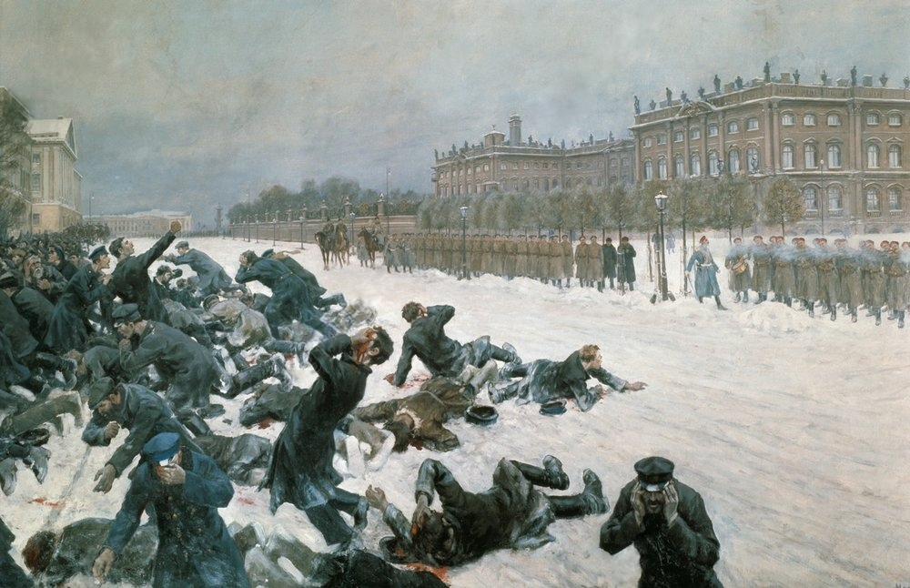 The Russian Revolution, 1905 Artistic impression of Bloody Sunday in St Petersburg, Russia, when unarmed demonstrators marching to present a petition to Tsar Nicholas II were shot at by the Imperial Guard in front of the Winter Palace on 22 January 1905.